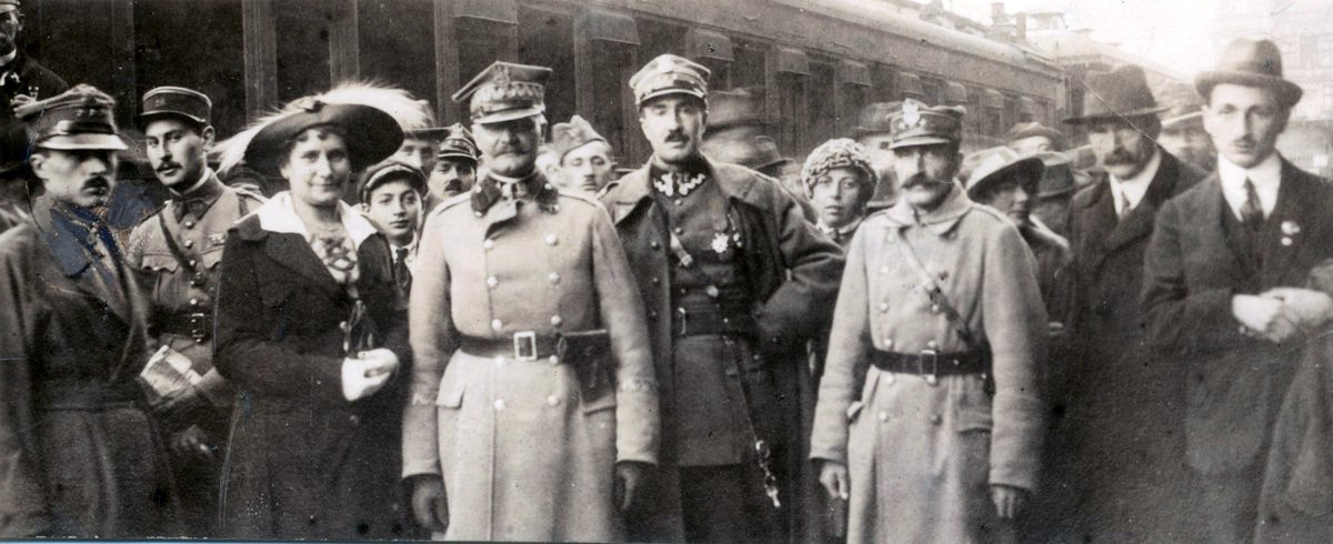 Delegation of Polish Army for negotiations with Soviet Russia on conditions of armistice and Peace Treaty ending Polish Soviet War. In centre gen. Mieczysław Kuliński